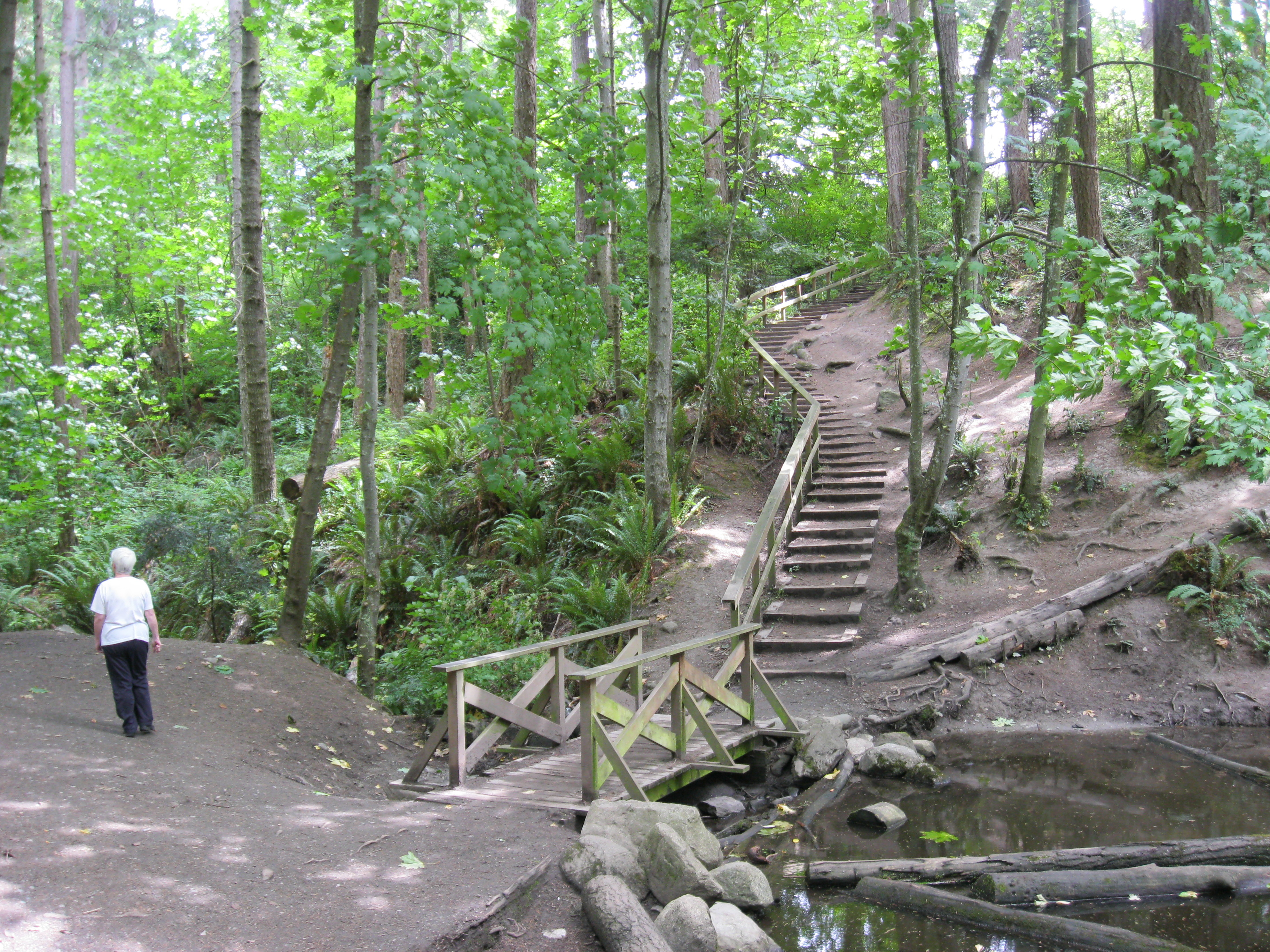 Maxi-Stairs Mini-Bridge of Mystic Vale . READ INFO IN PANORAMIO/COMMENTS